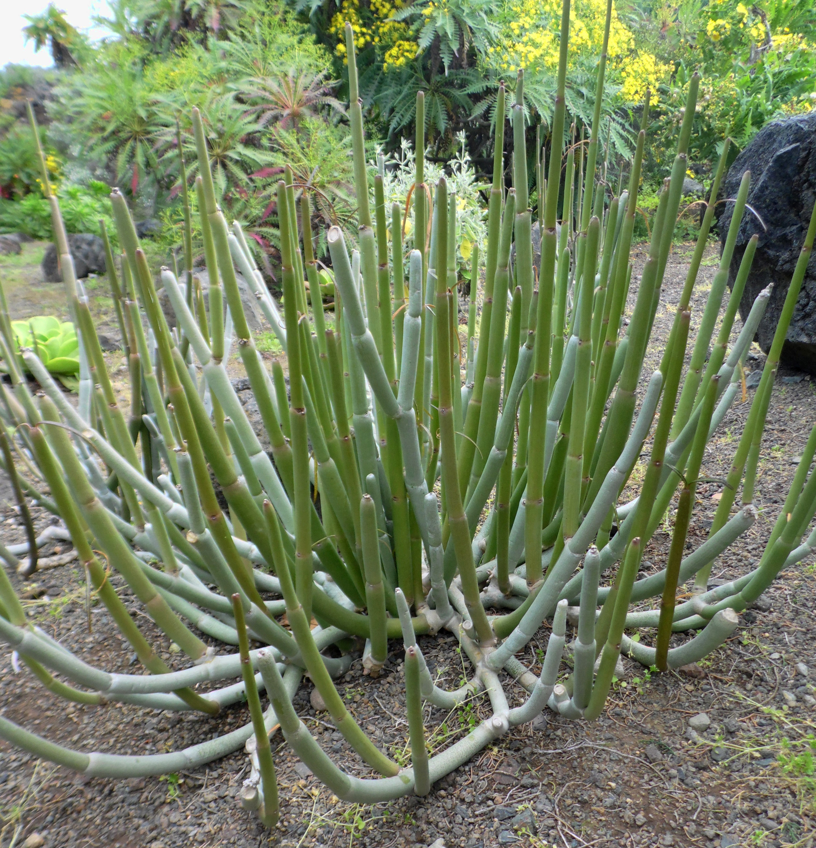 Ceropegia dichotoma in Jardín Botánico Canario Viera y Clavijo